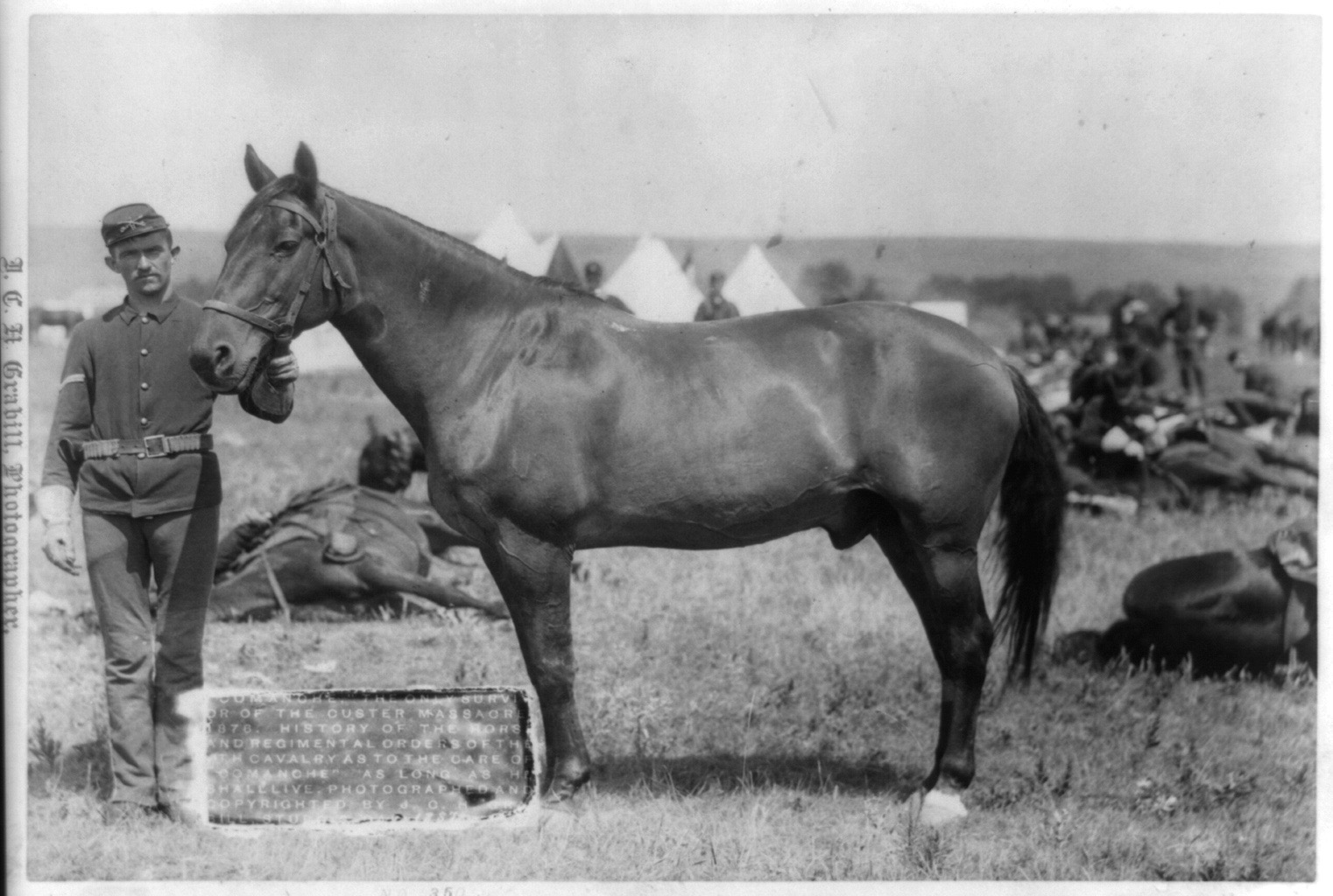 Original title "Comanche," the only survivor of the Custer Massacre, 1876. History of the horse and regimental orders of the [7]th Cavalry as to the care of "Comanche" as long as he shall live